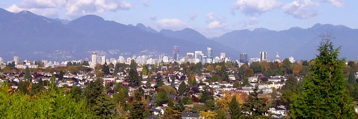 I, thedemonhog took this picture of Kitsilano and Downtown Vancouver on June 18, 2006 from Arbutus Ridge, and have cropped it to 5x1 from 4x3.